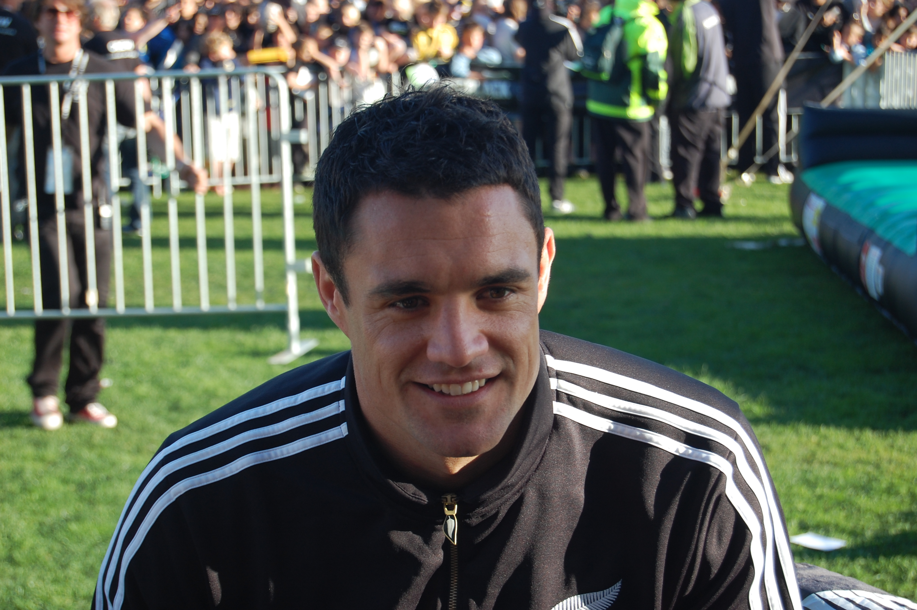 Dan Carter in Waitangi Park in November 2011, as part of the Rugby World Cup events.